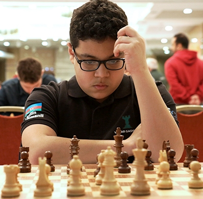 Aydin Suleymanli (Aeroflot Open 2020)